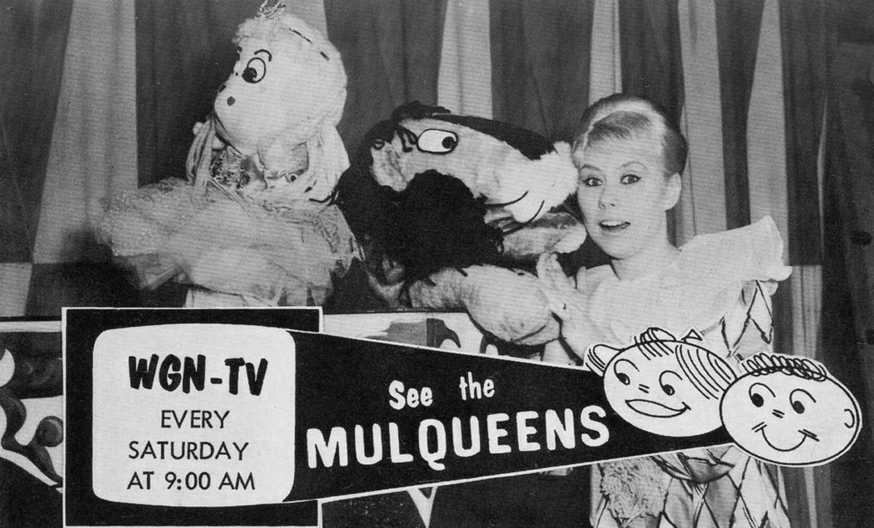 Photo of The Mulqueens. This was a husband and wife team, with Elaine (AKA Pandora) on camera while Jack was the puppeteer. They appeared on many local Chicago children's shows in the 1960s and 1970s, having two programs of their own. This is for their first television program, The Mulqueens, on WGN-TV. Later, they hosted a children's disco dance program called Kiddie-A-Go-Go. The disco show was on WLS-TV and ran until circa 1970.